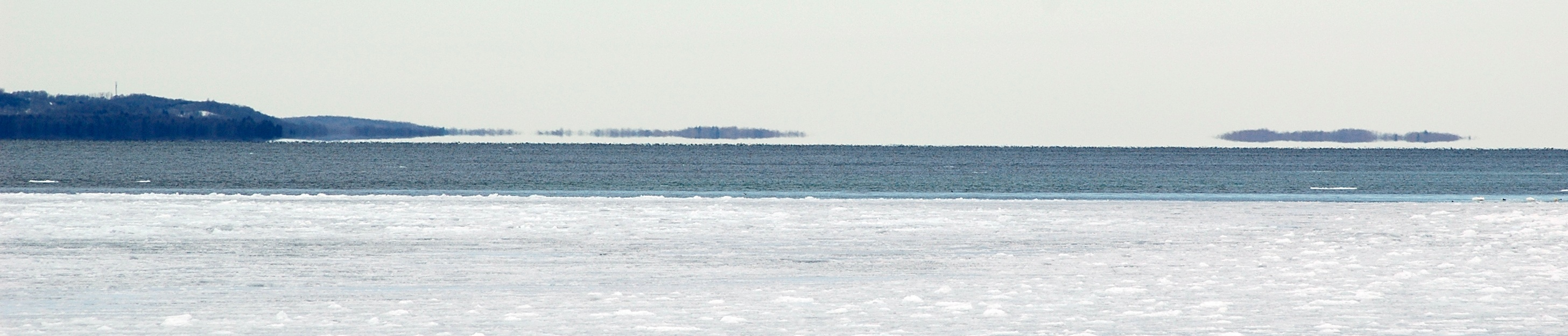 Inferior mirage created by a thin, warm layer of air near the surface of the west arm of Grand Traverse Bay in winter. Image taken from Bryant Park in Traverse City, Michigan looking north-northwest along the Leelanau Peninsula. The nearest land, on the left, is approximately 3 miles (5 Kilometre) away, the land seen in the mirage itself is 5-10 miles (8-16 km) distant.